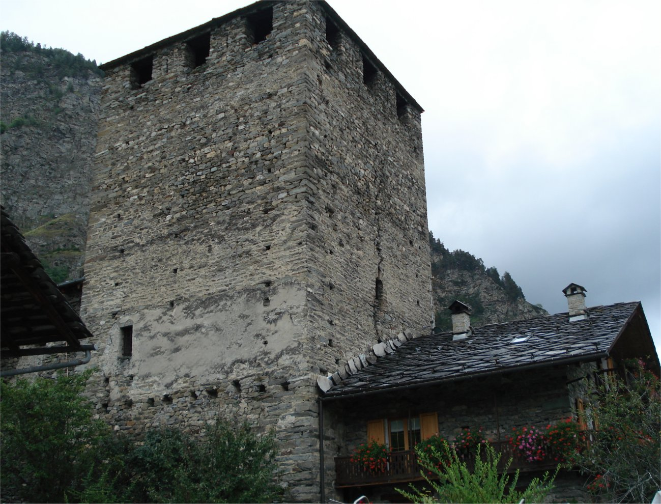 Ecours castle in La Salle in Aosta Valley